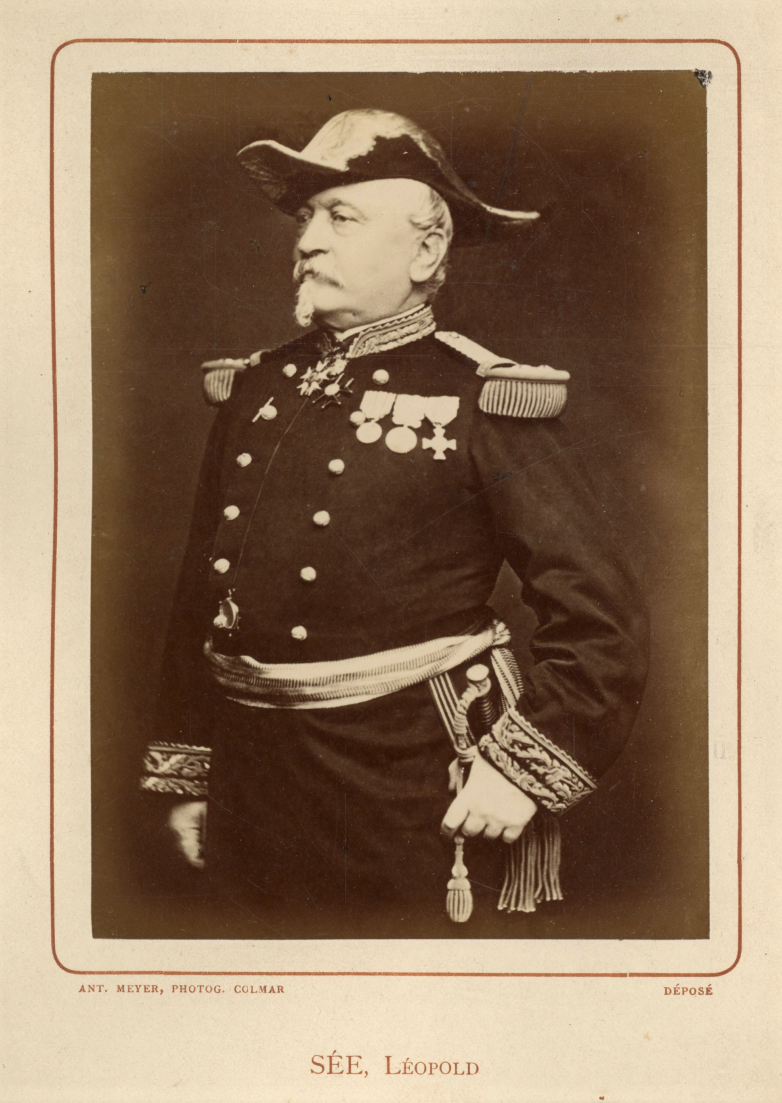 Portrait of General Léopold Sée (1822-1904) by Antoine Meyer